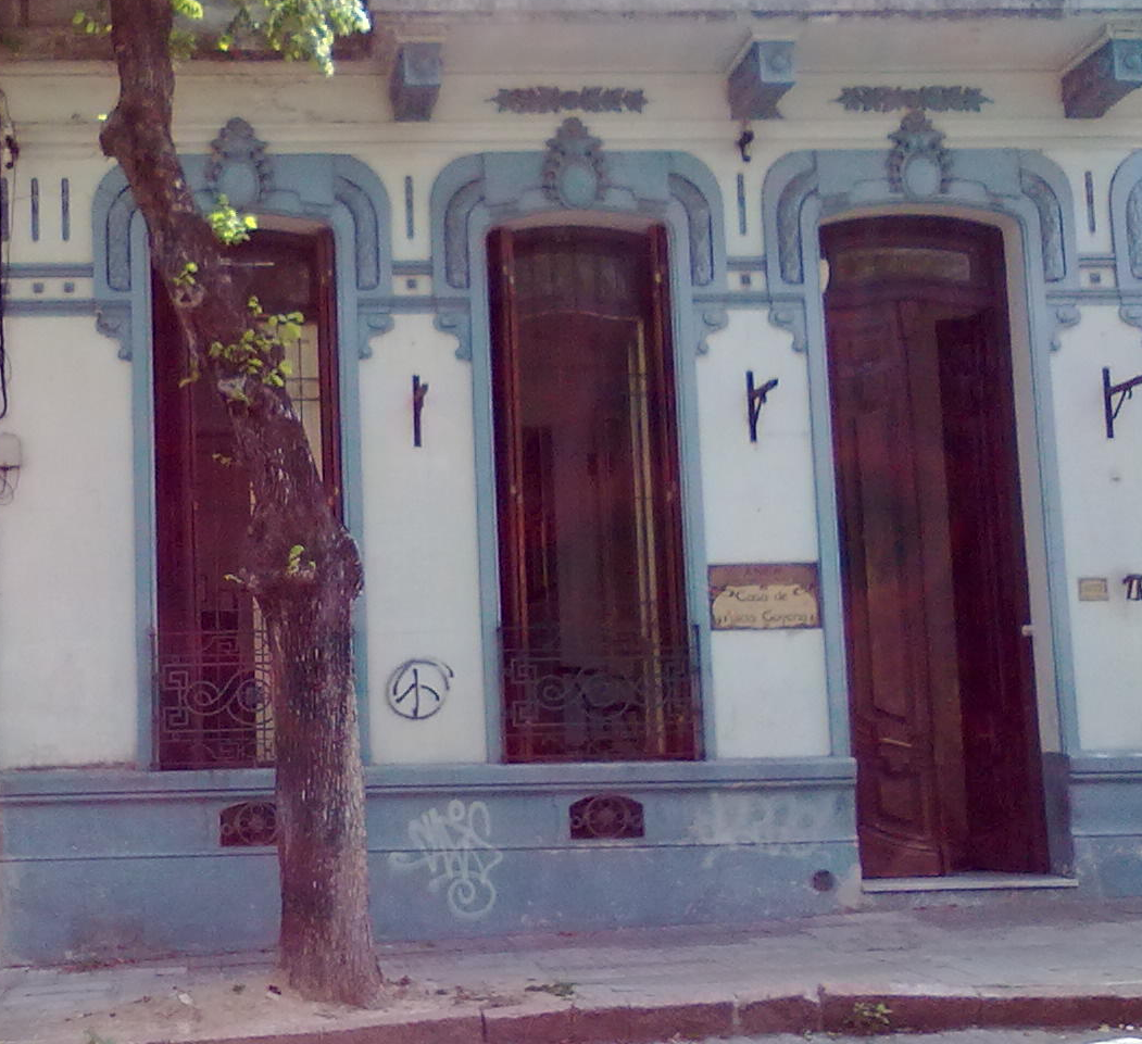 fachada